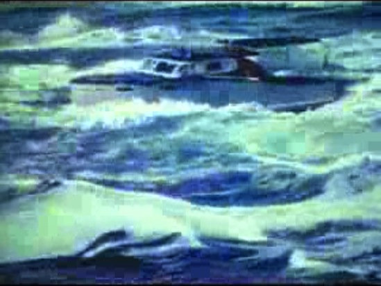 A boat sails on rough waters in the theatrical trailer of the 1953 film Niagara directed by Henry Hathaway.